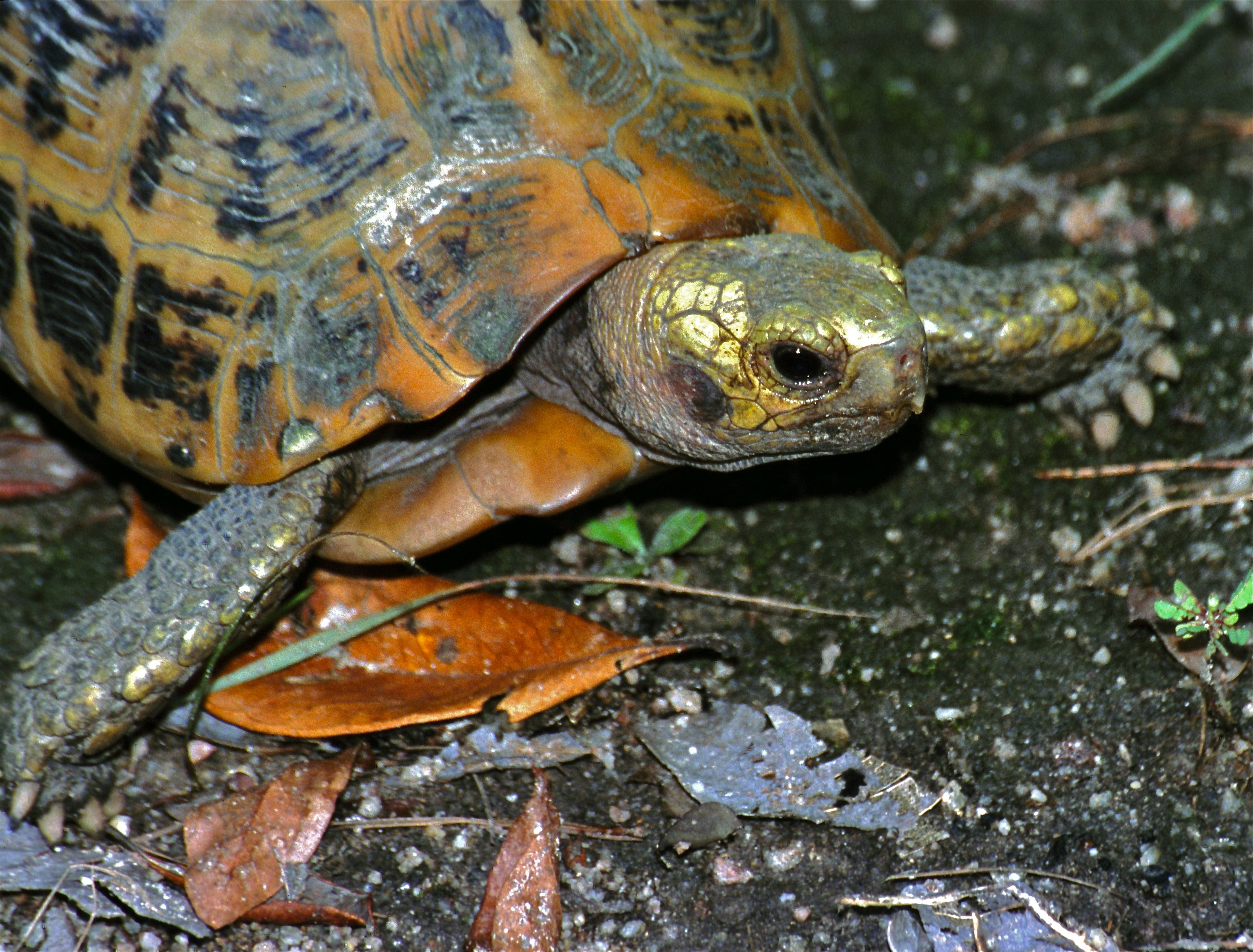 Khun Chae NP, THAILAND Scanned Slide from 2003